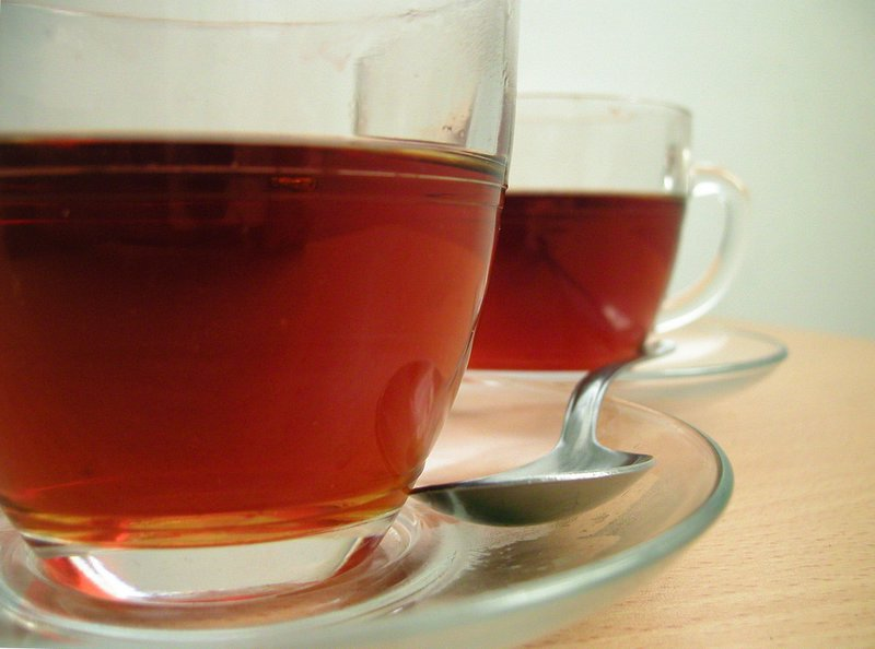 from a series of photos i took for a book cover about two women and their hard lives. the two always meet and drink tea together. Tthe picture that was chosen for the cover is not on this set.